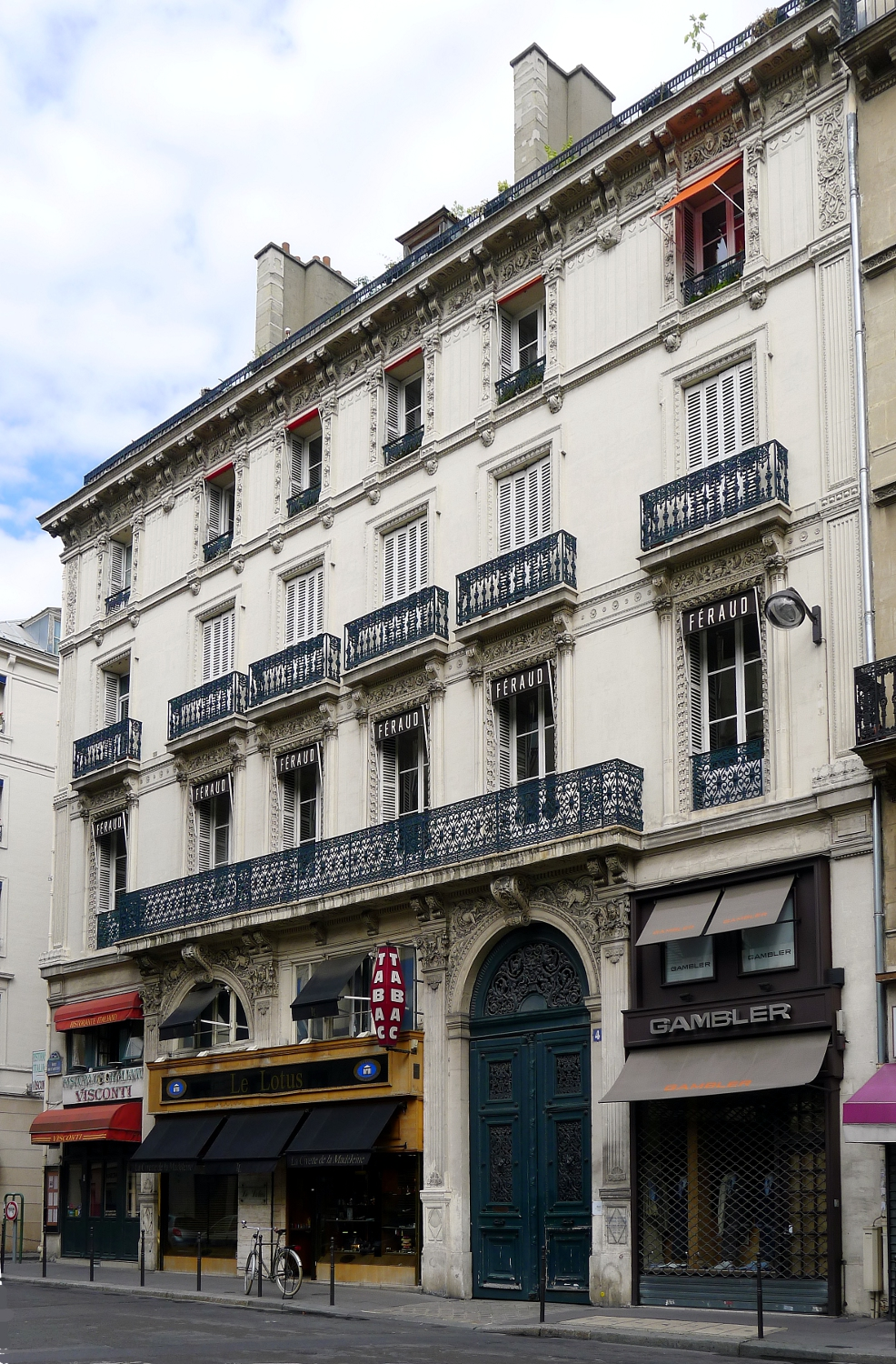 Arcade street - Paris